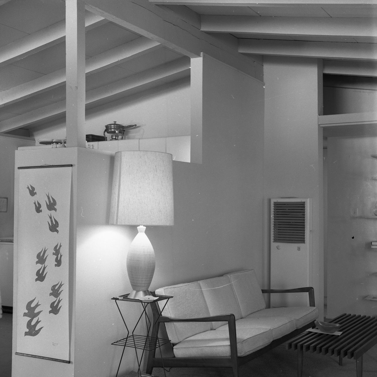 Living room and part of kitchen in a Tujunga, California, Mid-Century Modern Home with open-beam ceiling, wall hanging, wall heater, 1960 Other information Photo by George Garrigues